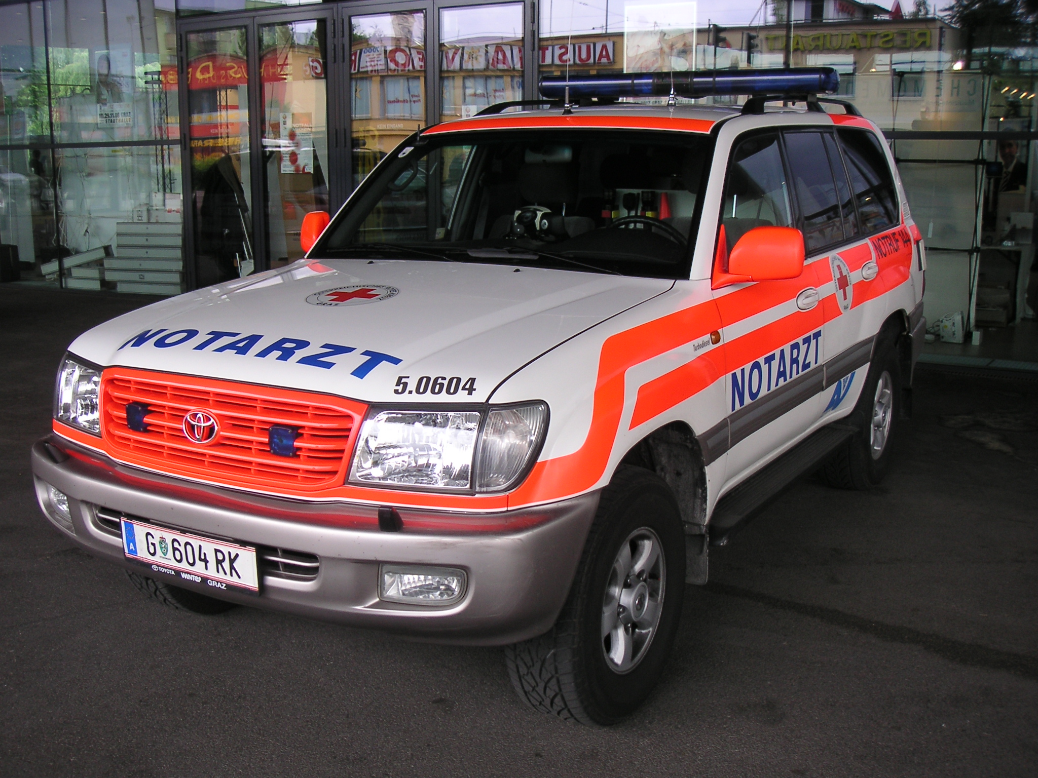 The emergency physician rapid response car (NEF) Graz-West in Graz, Styria, Austria. Manned by one doctor (emergency physician) and a specially trained paramedic as driver and assistant.